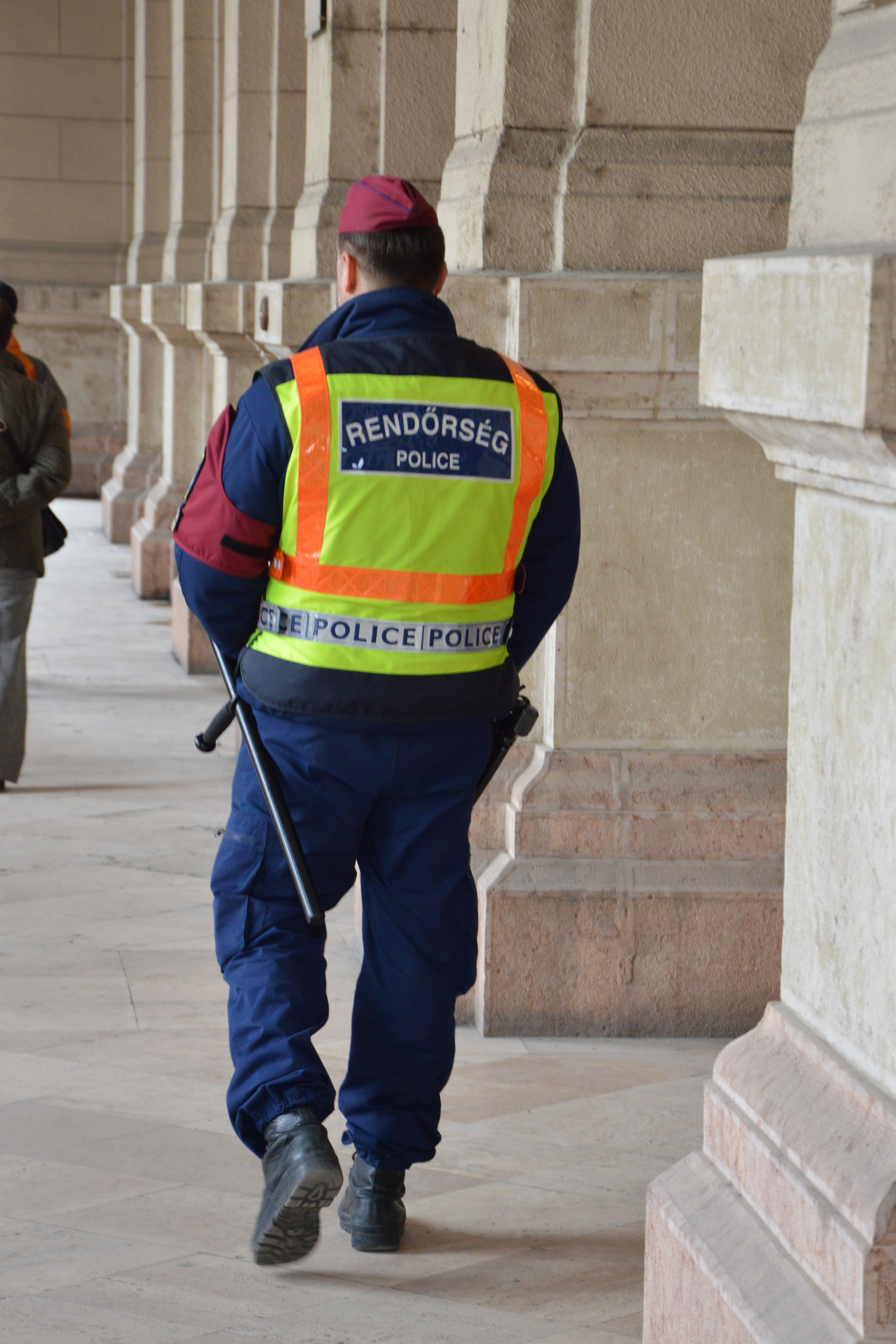 Police officer in Budapest, Hungary